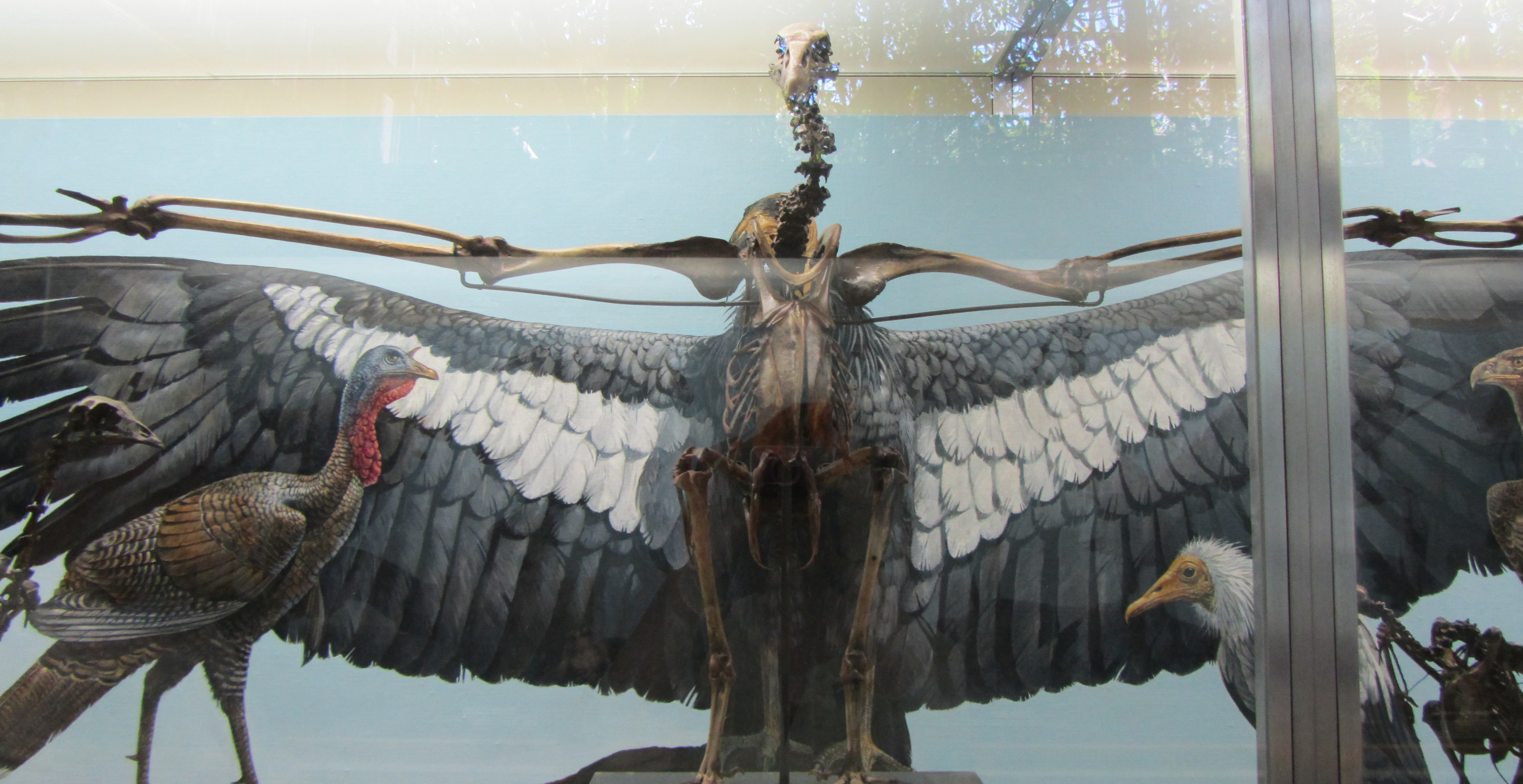 Extinct condor (middle) Gymnogyps amplus